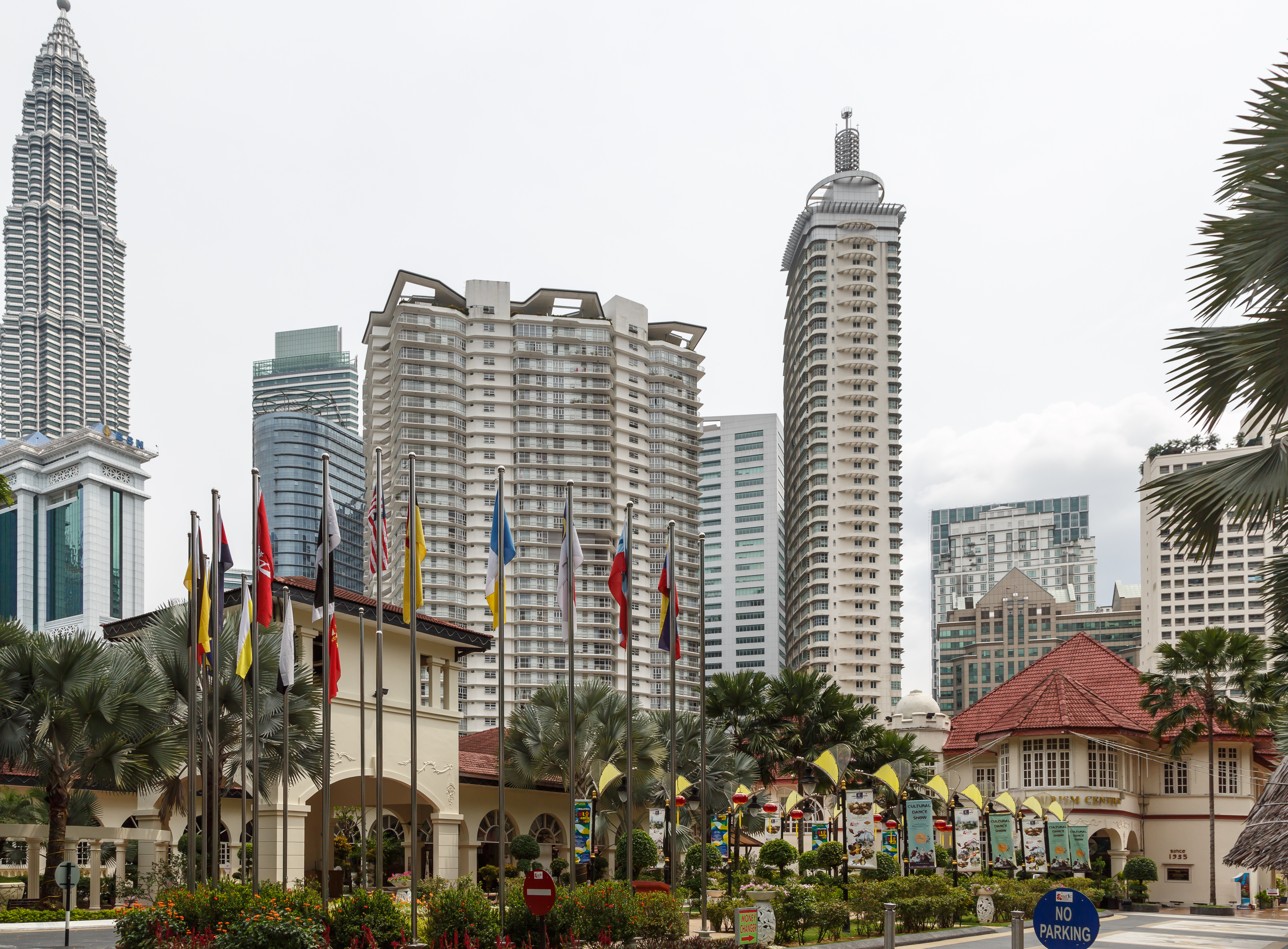 Kuala Lumpur, Malaysia: Compound of Malaysia Tourism Centre (MaTiC), aka "Pusat Pelancongan Malaysia"